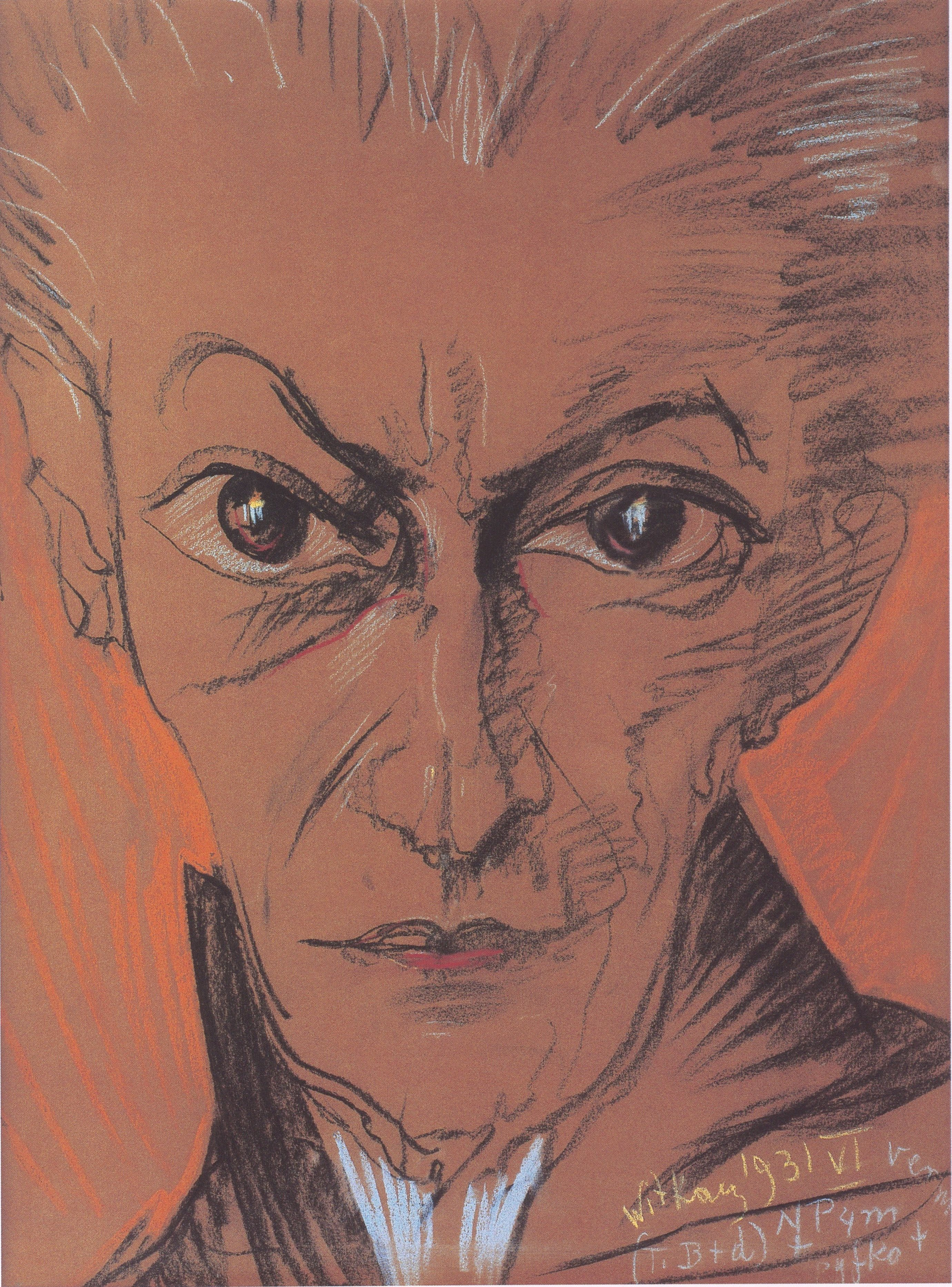 S.I.Witkiewicz Portret mężczyzny (Prospera Szmurły) papier; pastel; 63.50*47.70; 1931; nr inw.: MPŚ-M/1426